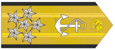 Second Insignia of the Generalissimo of the Earth and the Sea of the Armed Forces of Brazil